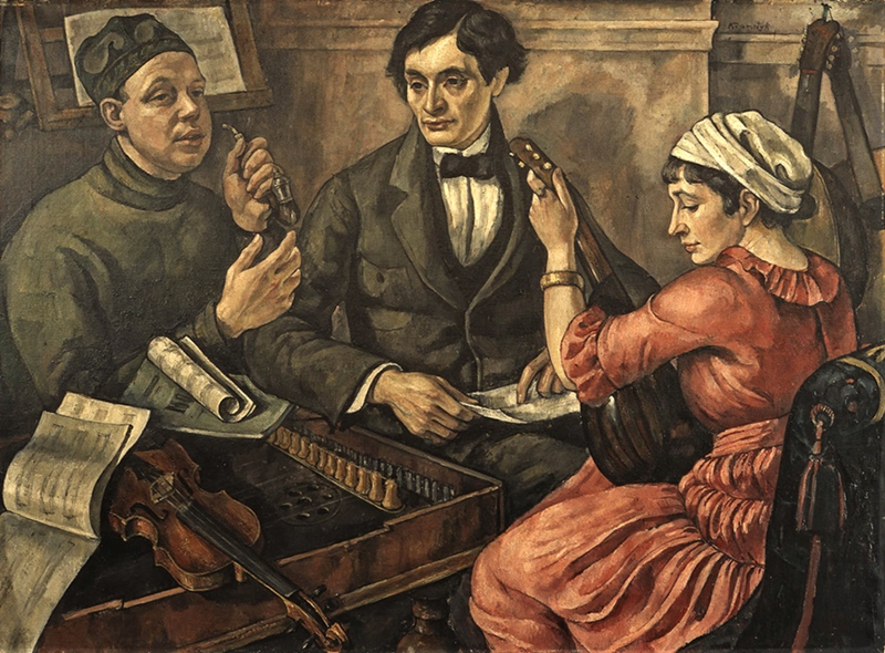 Concerto